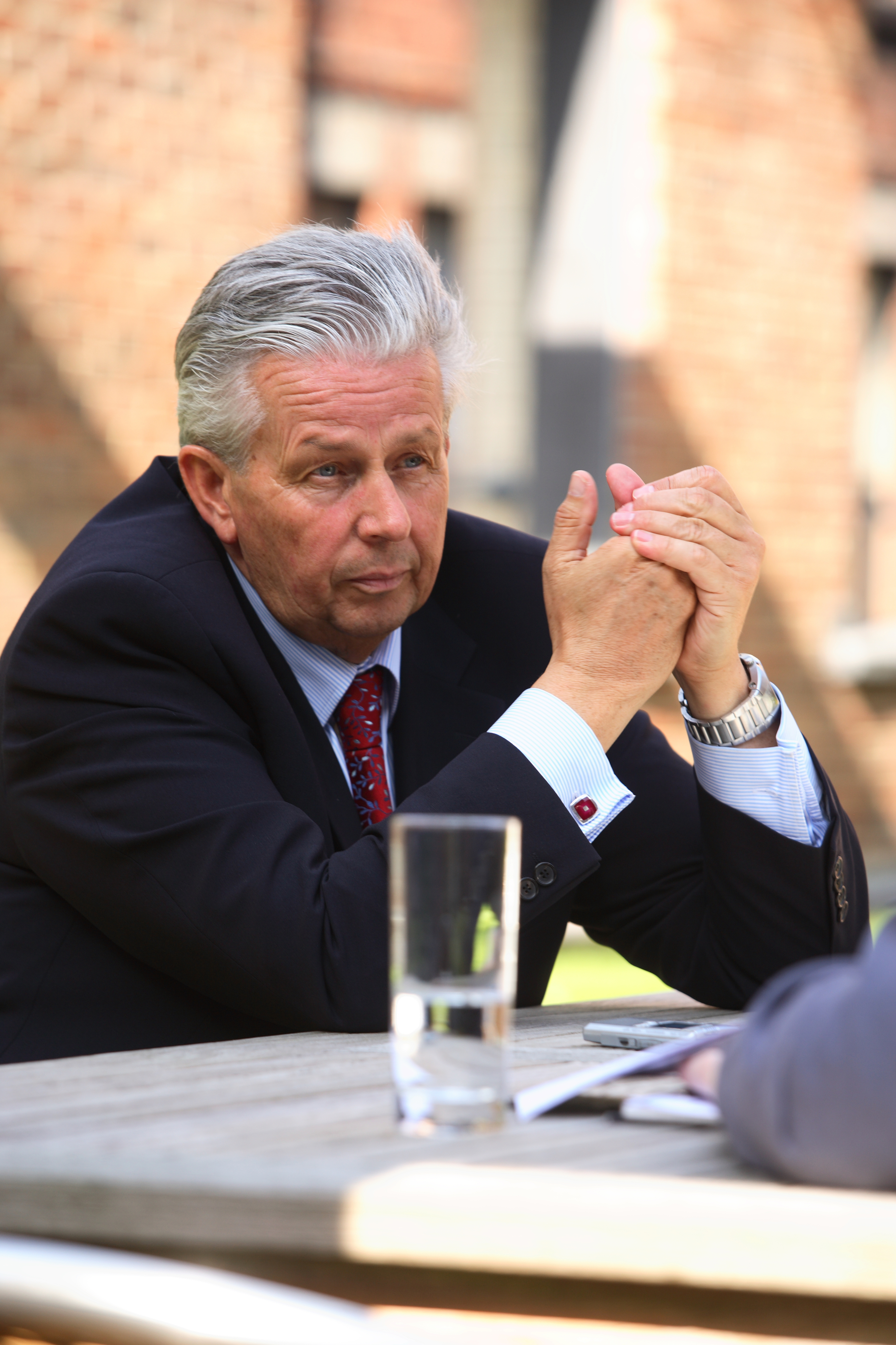 Photograph of Alan J Smith for Business North East Quarterly Magazine, published November 2008